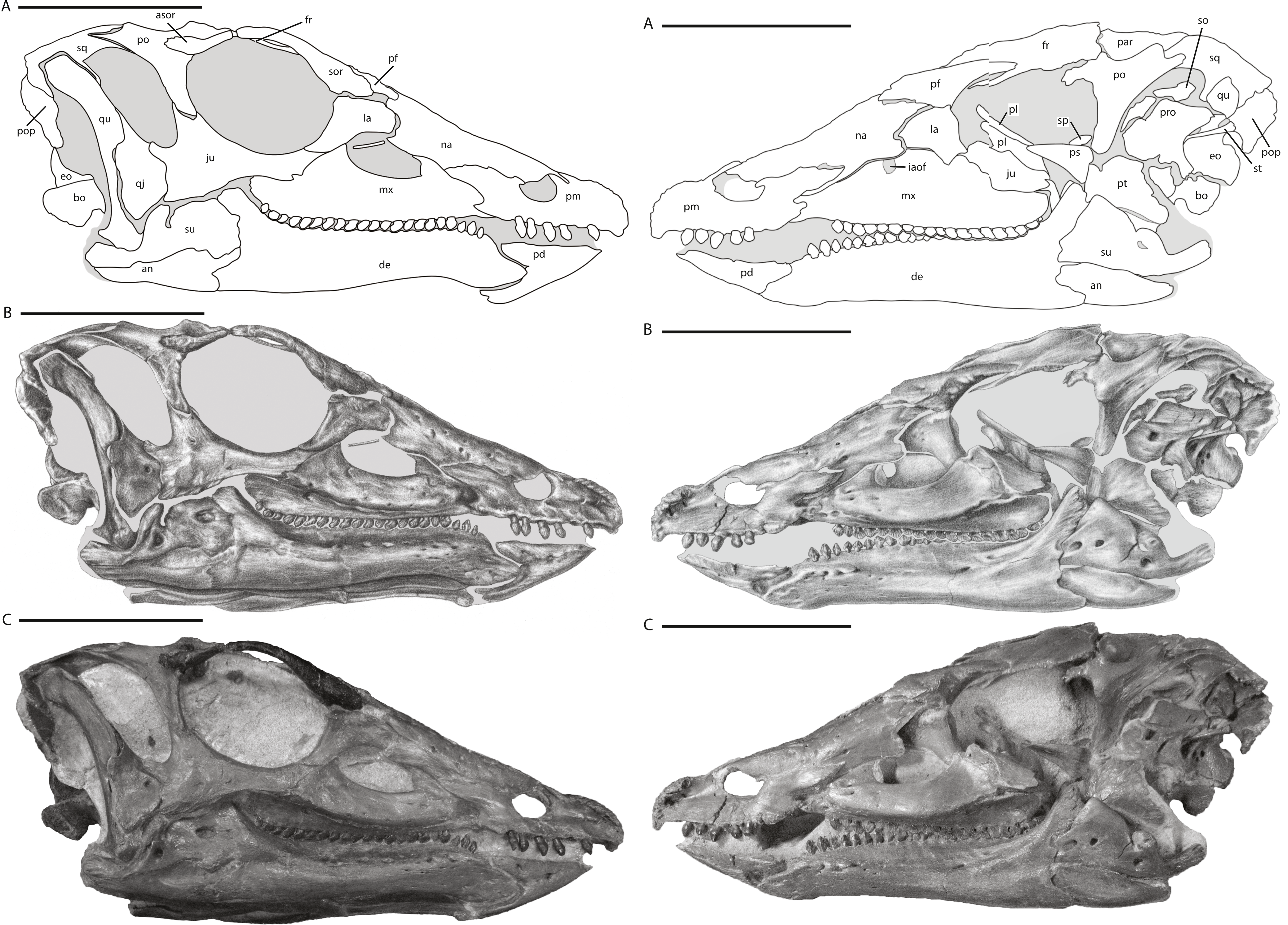 Left: Skull of NCSM 15728 in right lateral view. (A) diagram highlighting the contacts between the bones on the right side of skull; (B) illustration of right side of skull; (C) photograph of right side of skull. In (A) and (B), grey regions indicate the presence of matrix on the specimen. Abbreviations: an, angular; asor, accessory supraorbital; bo, basioccipital; de, dentary; eo, fused opisthotic/exoccipital; fr, frontal; ju, jugal; la, lacrimal; mx, maxilla; na, nasal; pd, predentary; pf, prefrontal; pm, premaxilla; po, postorbital; pop, paroccipital process; qj, quadratojugal; qu, quadrate; sor, supraorbital; sq, squamosal; su, surangular. Scale bars equal 10 cm. Right: Skull of NCSM 15728 in left lateral view. (A) diagram highlighting the contacts between the bones on the left side of skull; (B) illustration of left side of skull; (C) photograph of left side of skull. In (A) and (B), grey regions indicate the presence of matrix on the specimen. Abbreviations: an, angular; bo, basioccipital; de, dentary; eo, fused opisthotic/exoccipital; fr, frontal; ju, jugal; la, lacrimal; mx, maxilla; na, nasal; par, parietal; pd, predentary; pf, prefrontal; pl, palatine; pm, premaxilla; po, postorbital; pop, paroccipital process; pro, prootic; ps, parasphenoid; pt, pterygoid; qu, quadrate; so, supraoccipital; sp, sclerotic plate; sq, squamosal; st, stapes; su, surangular. Scale bars equal 10 cm.